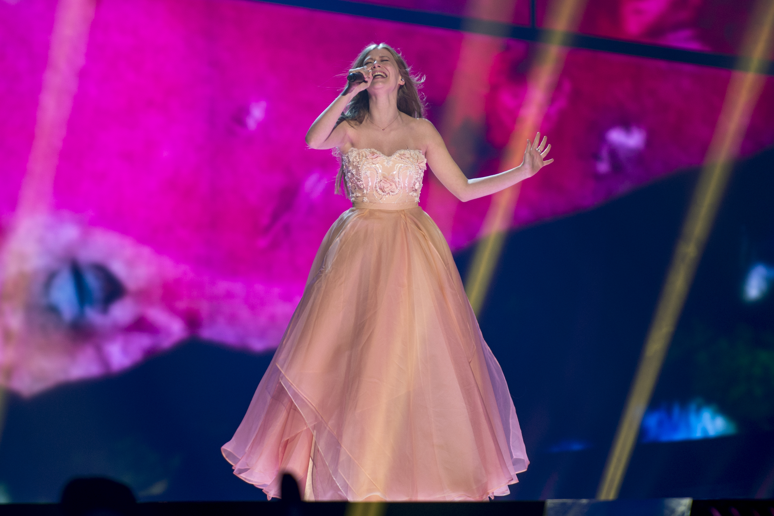 Zoë representing Austria with the song "Loin d'ici" during a rehearsal before the first semi final of the Eurovision Song Contest 2016 in Stockholm. (Help translate this text)